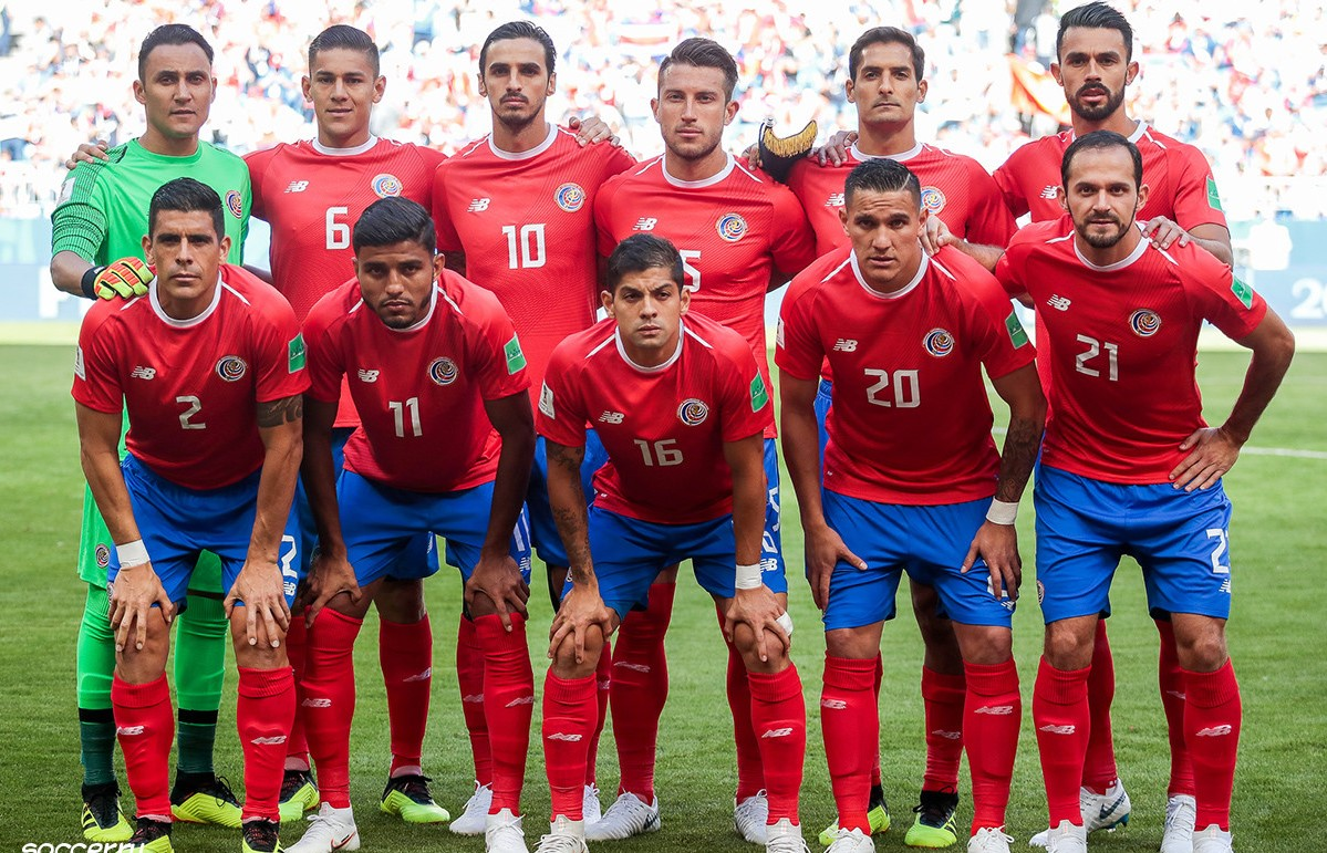 Costa Rica national football team